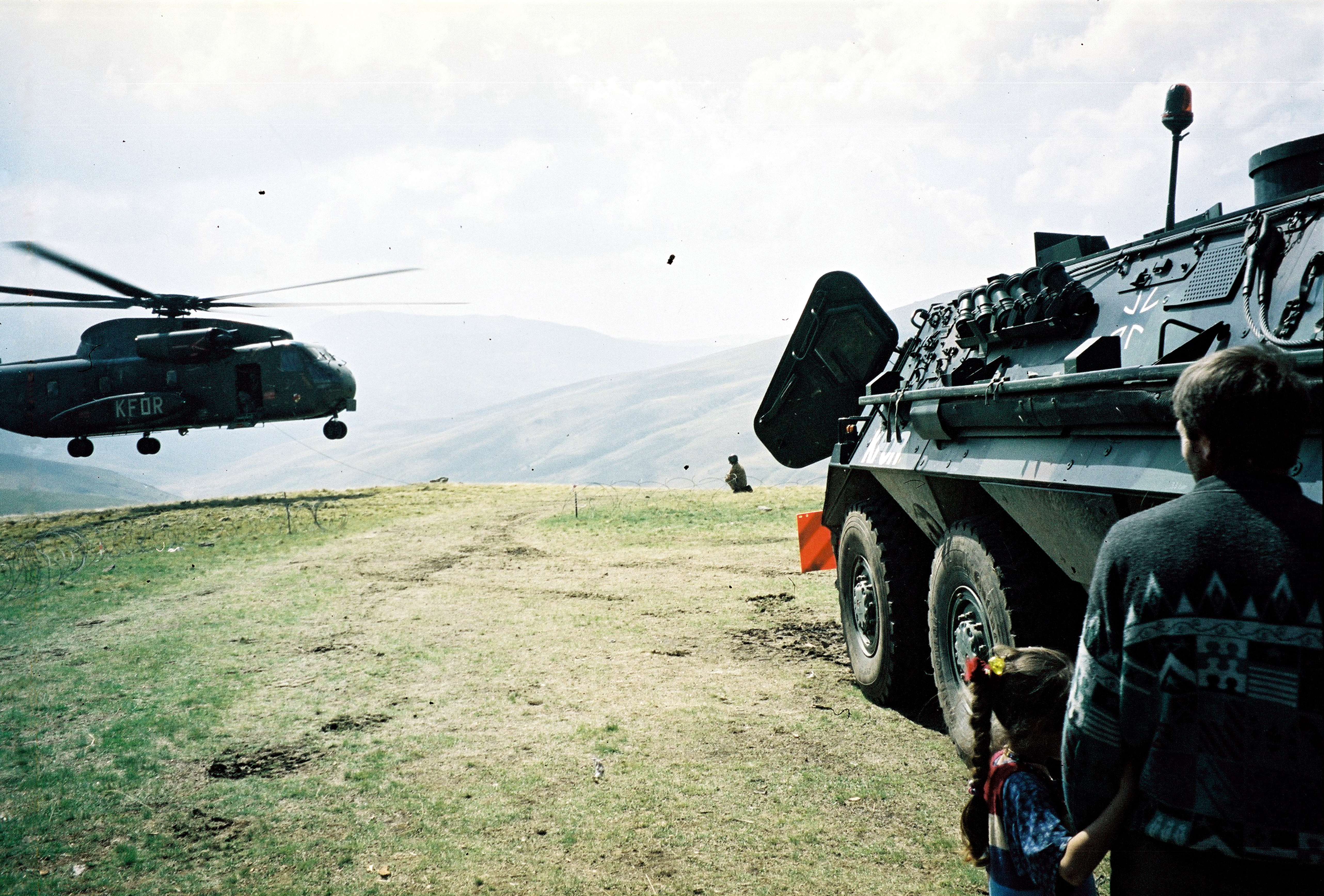 German KFOR observation post in the "Dragaš bag", where Kosovo borders on Albania and Macedonia, during the 2001 Tetovo conflict. The landing helicopter is a CH-53 Sea Stallion, the tank to the right a Transportpanzer Fuchs. The two people are an Albanian shepherd and his daughter, obviously fearing the helicopter.